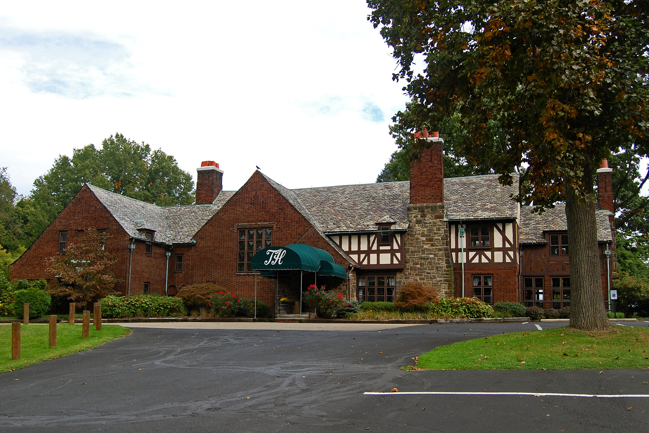 Frank Mason Raymond House, also known as Tudor House, 655 Latham Ln. New Franklin